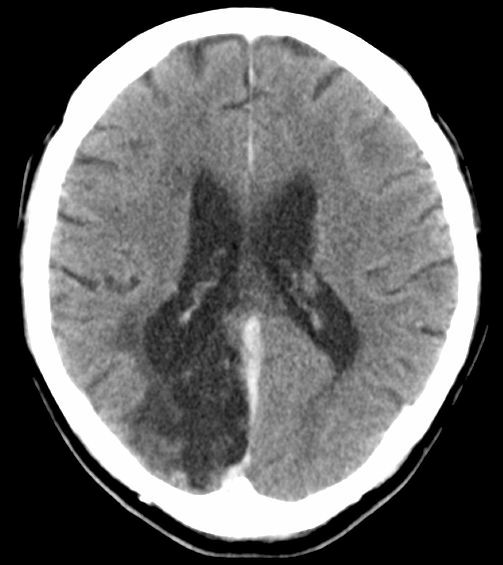 POCI- posterior circulation cerebral infarct